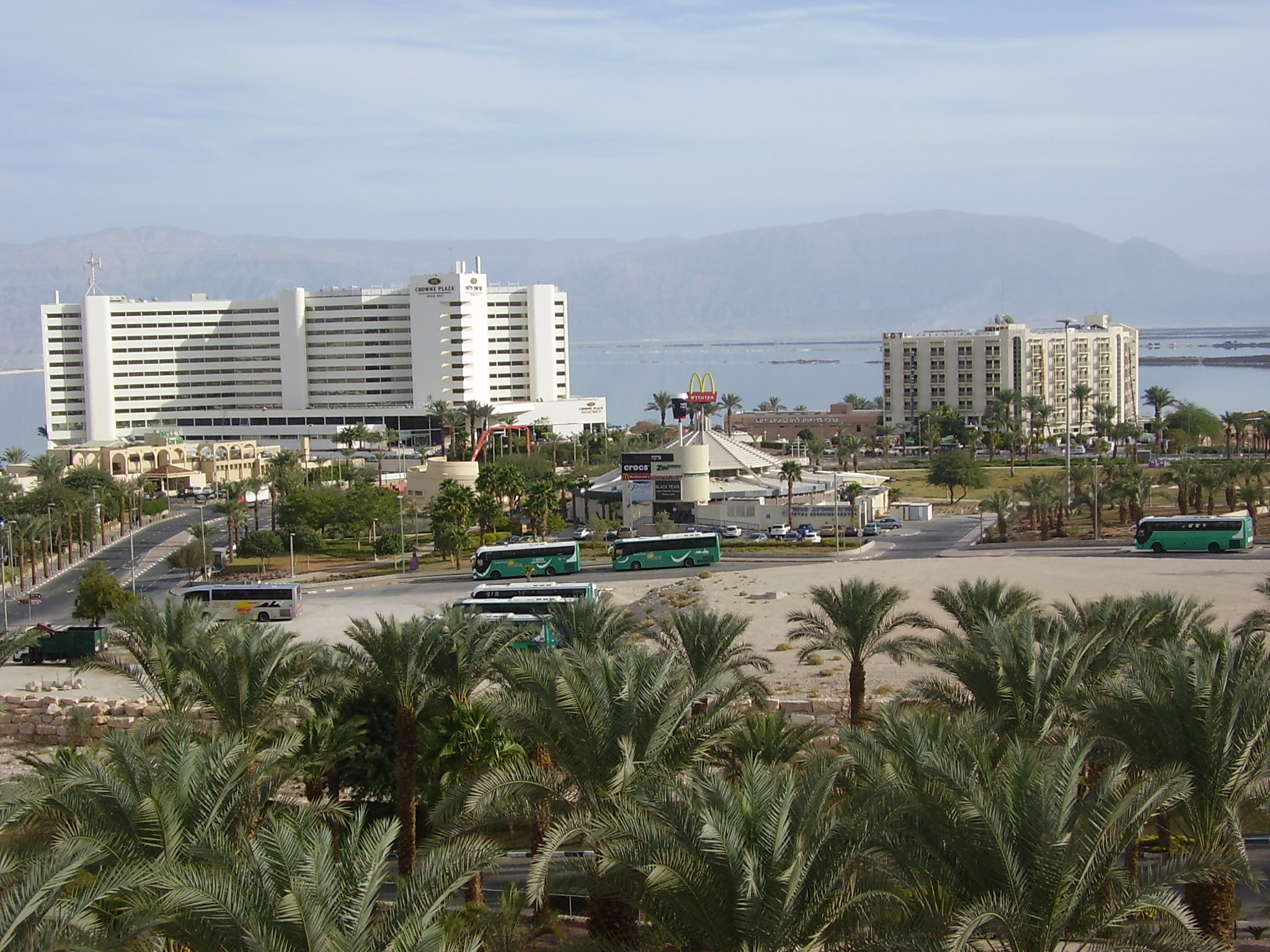 Dead Sea Hotels